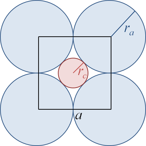 Square planar coordination polyhedron for the calculation of the critical radius ratio rc/ra, above which the square planar coordination isn't stable anymore. rc and ra are the ionic radii of the central cation and of the ligands (anions), respectively.